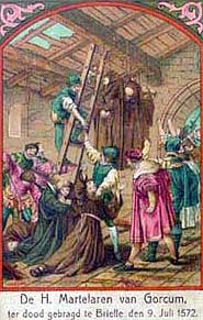 Antique Dutch holy card of the Gorkum Martyrs; image based on a painting in the Vatican museum by Cesare Fracassini, 1838-1868